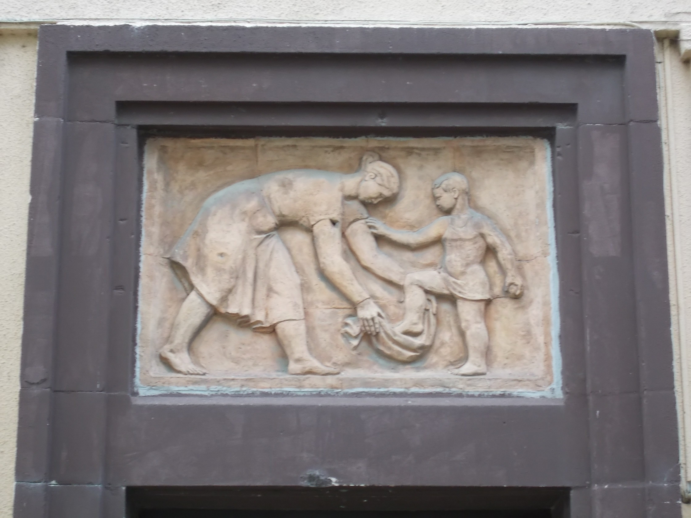 Hygiene by Magda Gádor (1957 works, Terracotta relief). - 12 Huba Street, Újváros neighborhood, Tatabánya, Komárom-Esztergom County, Hungary.